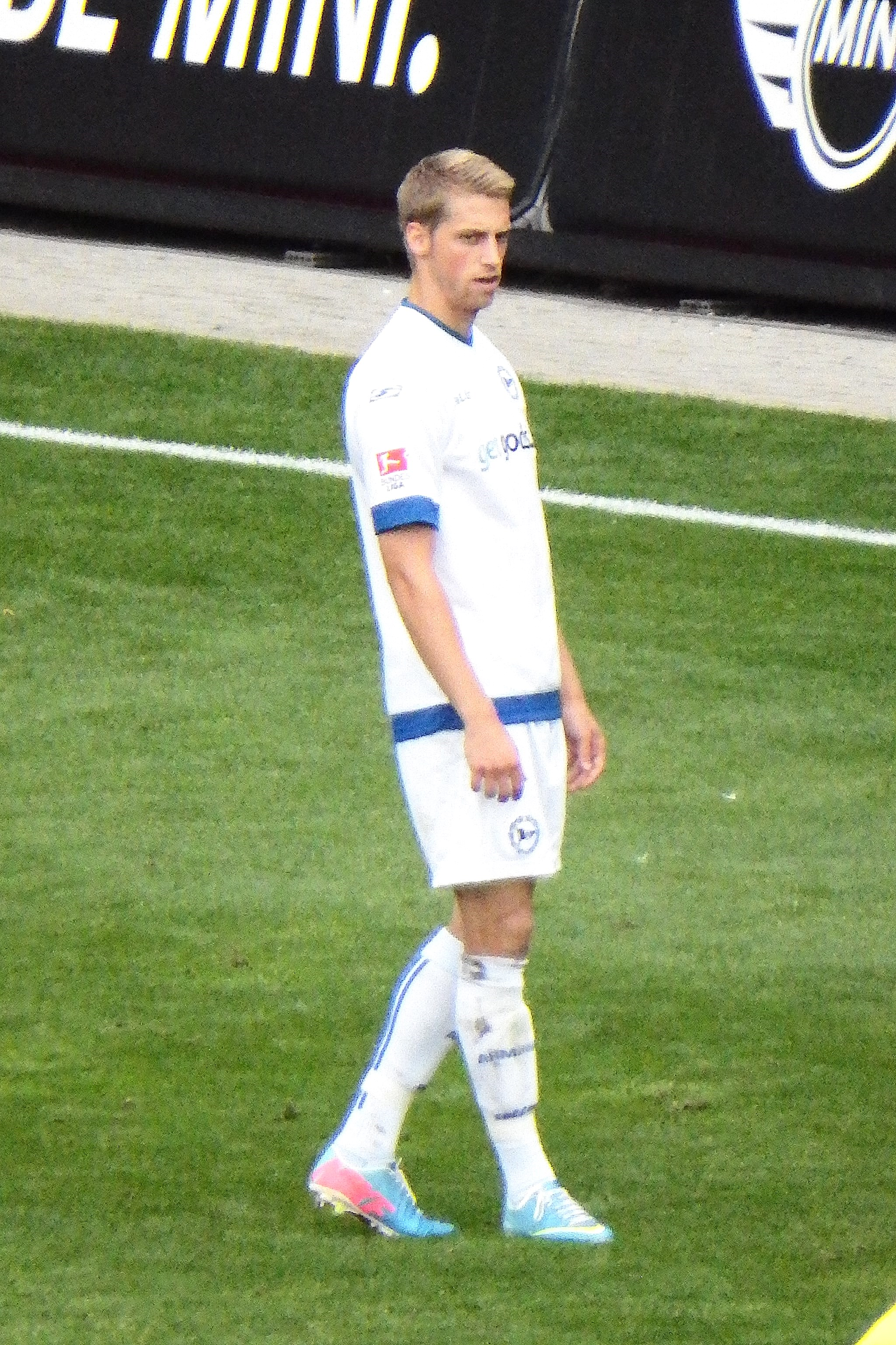 Marc Lorenz as Player of Arminia Bielefeld